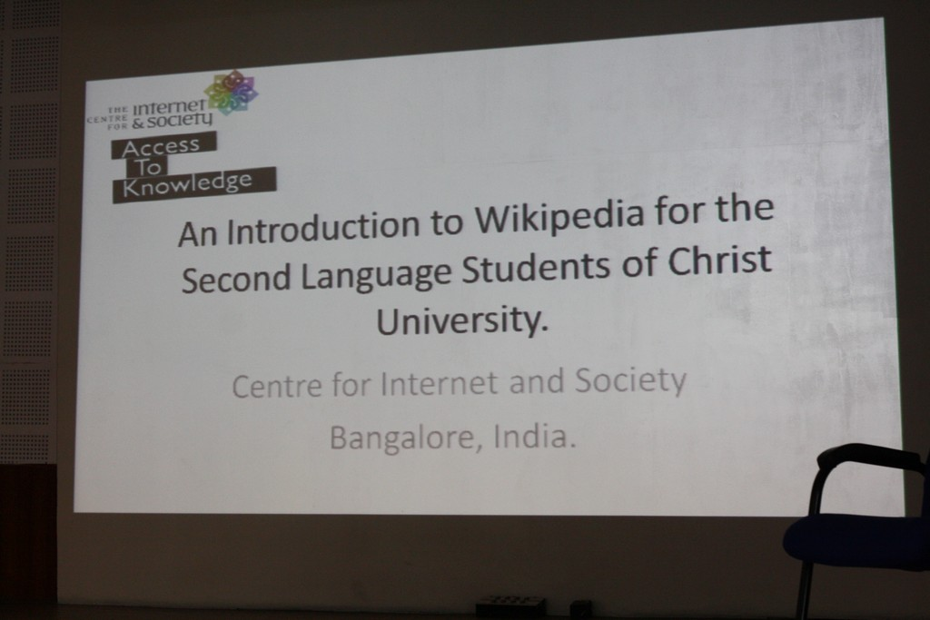 Wikipedia education program in UG at Christ University Bangalore